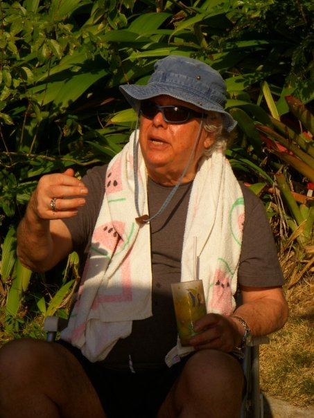 Carlos Leonam, brazilian journalist and photographer